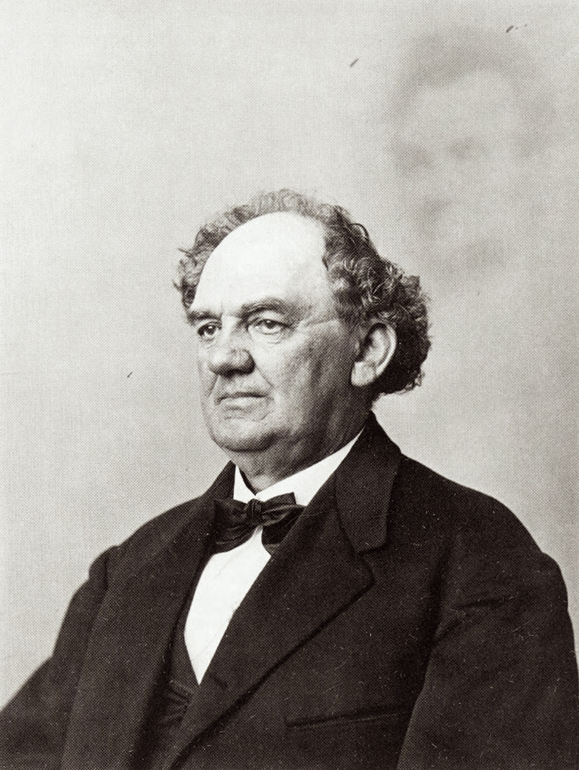 Fraudulent picture created on the request of P.T. Barnum to help convict William H Mumler, showing Barnum with the 'ghost' of Abraham Lincoln